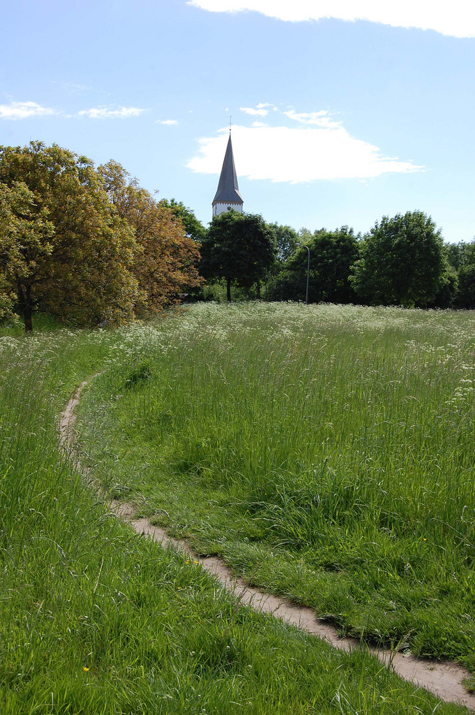 free for your creativity - please add a link of your work at this picture - many thanks and have fun :)*